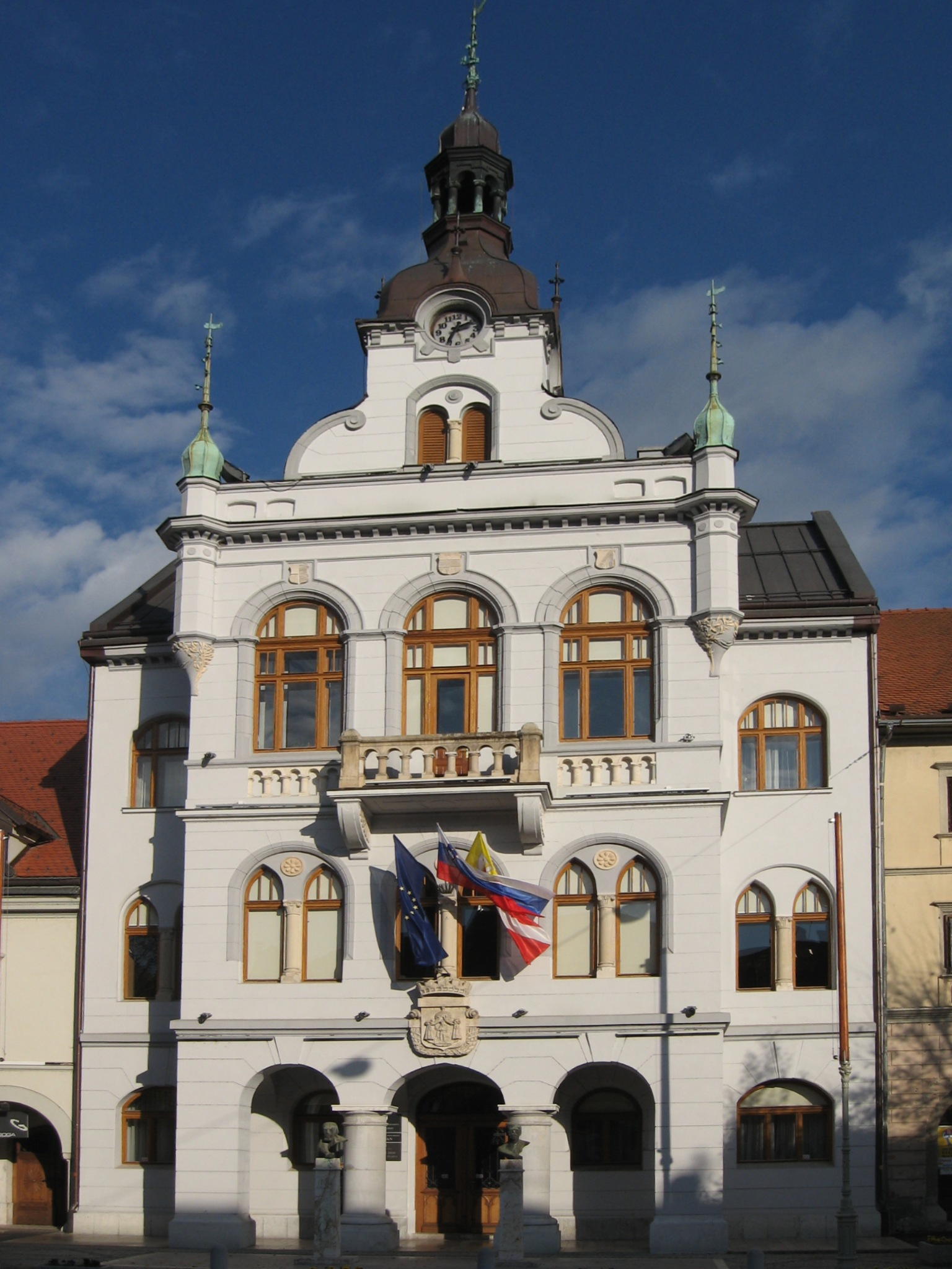 Novo Mesto Town Hall, Slovenia.